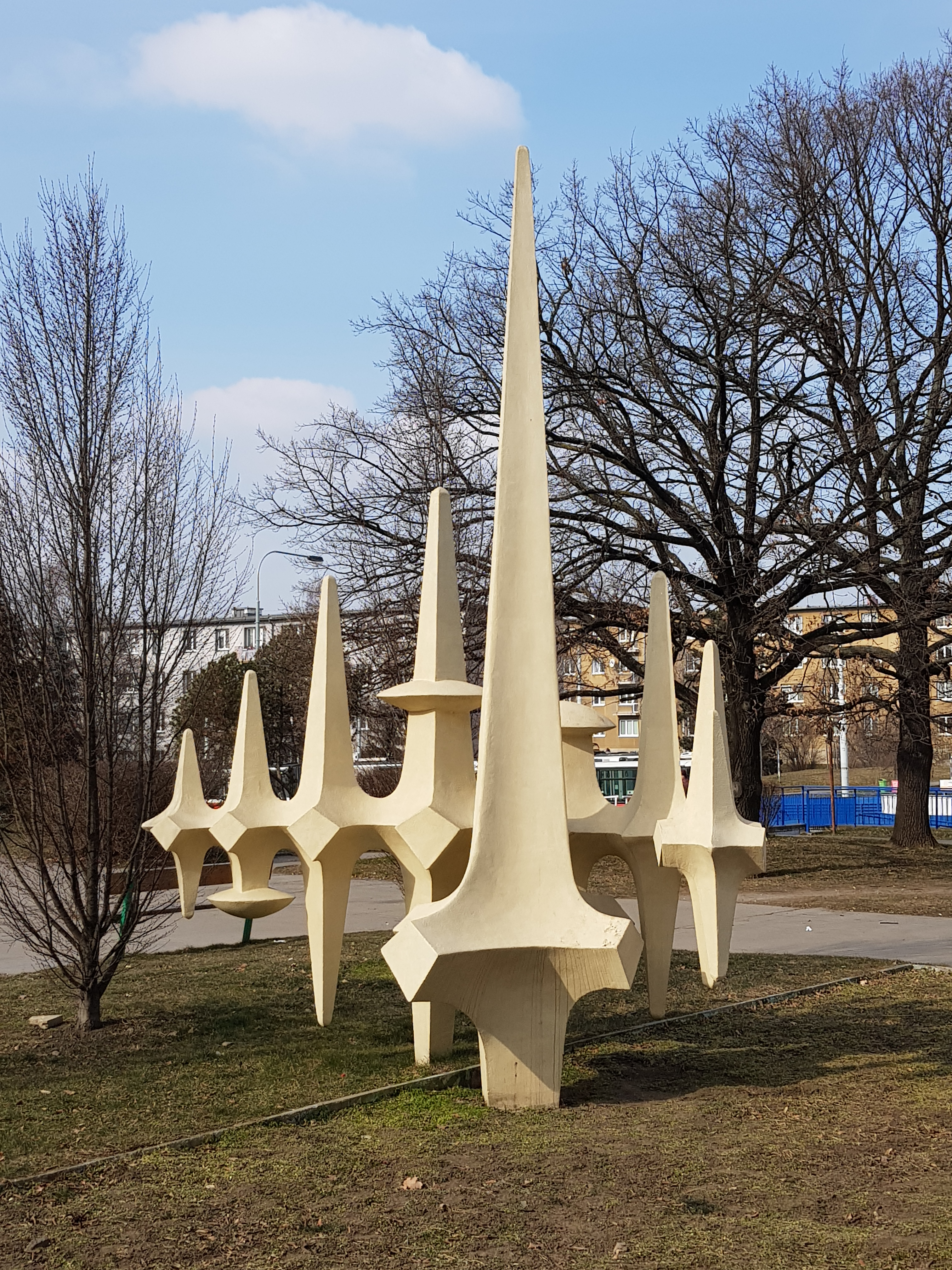 Fuga - abstract piece of art in Hloubětín, Prague